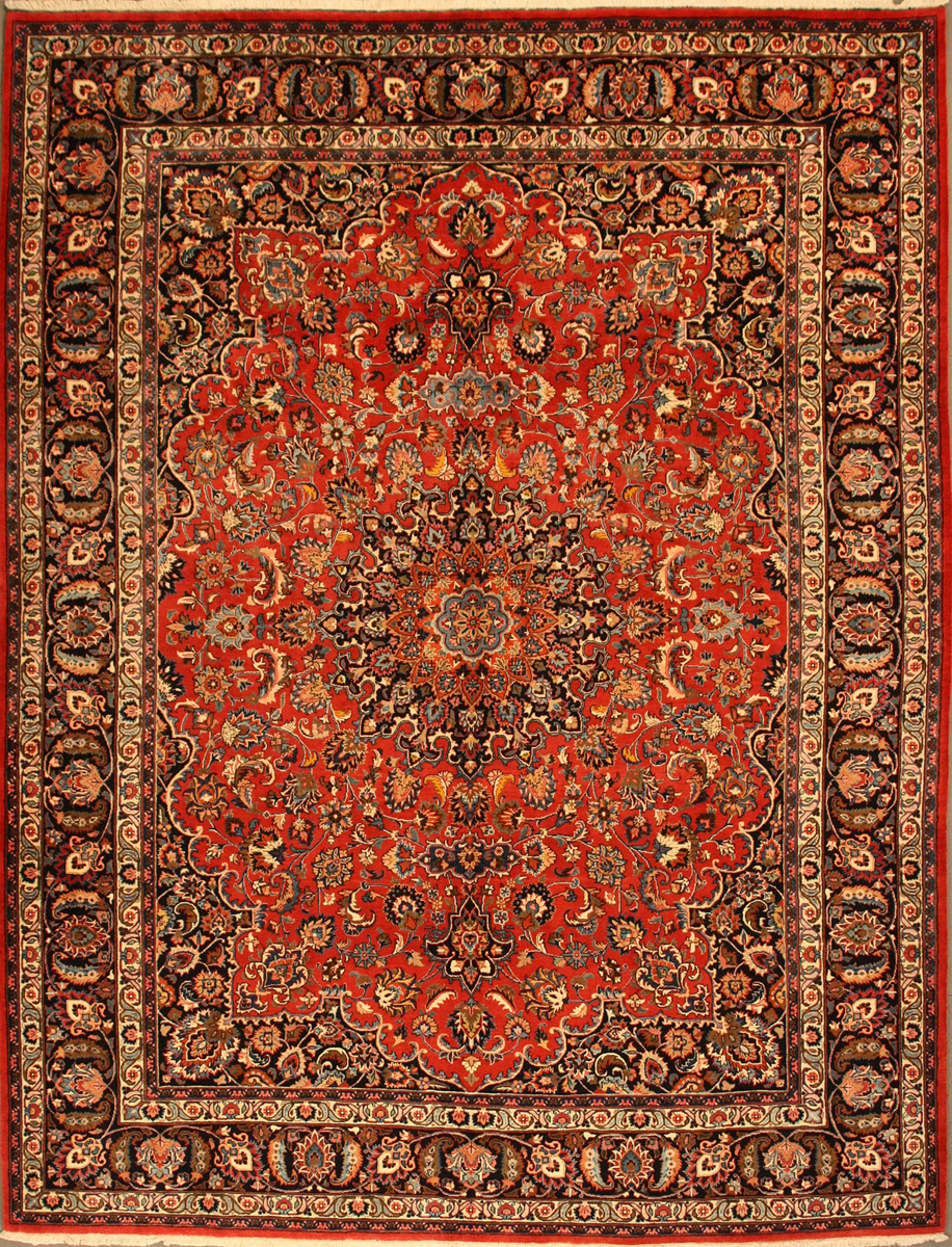 Old Persian Mashad rug signed by master weaver Hosseini 9'10" X 12'9"